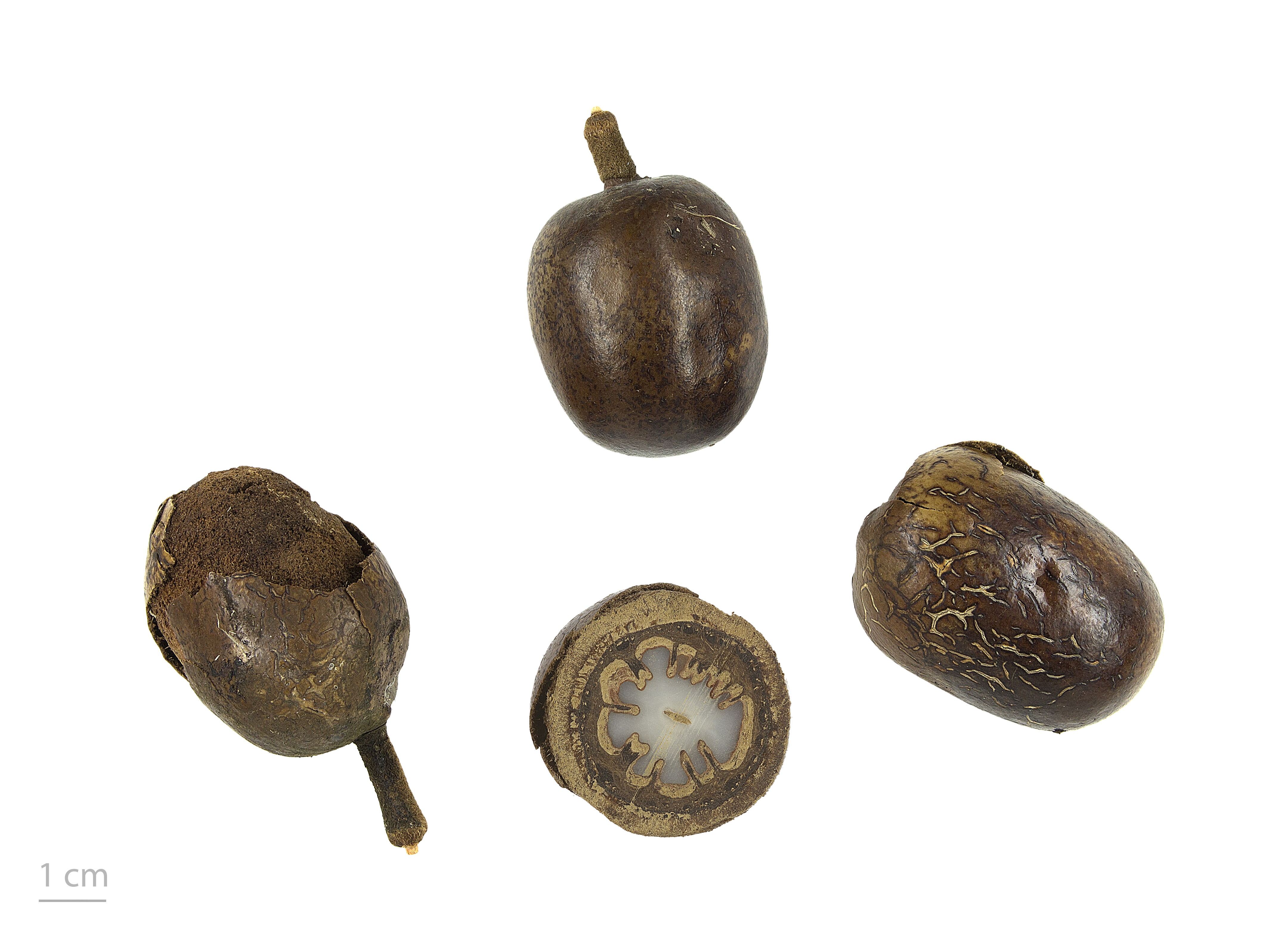 Bismarckia nobilis, seeds